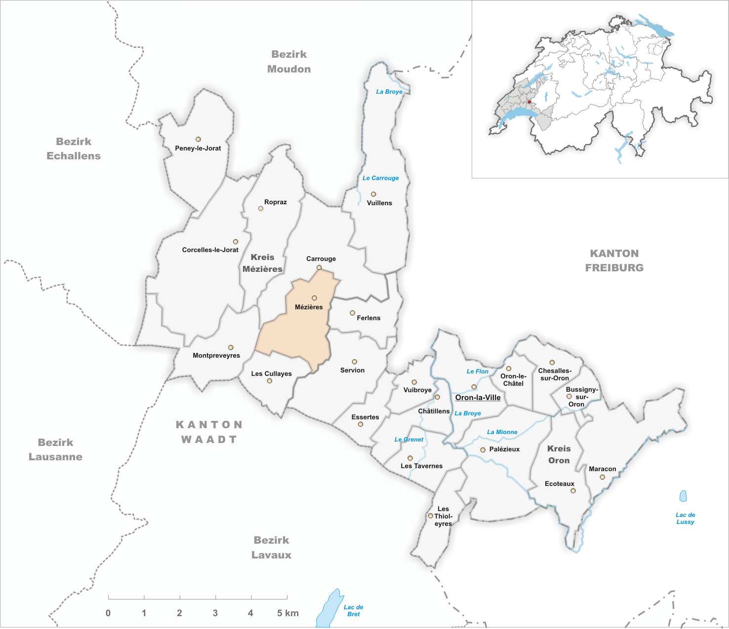 Municipality Mézières